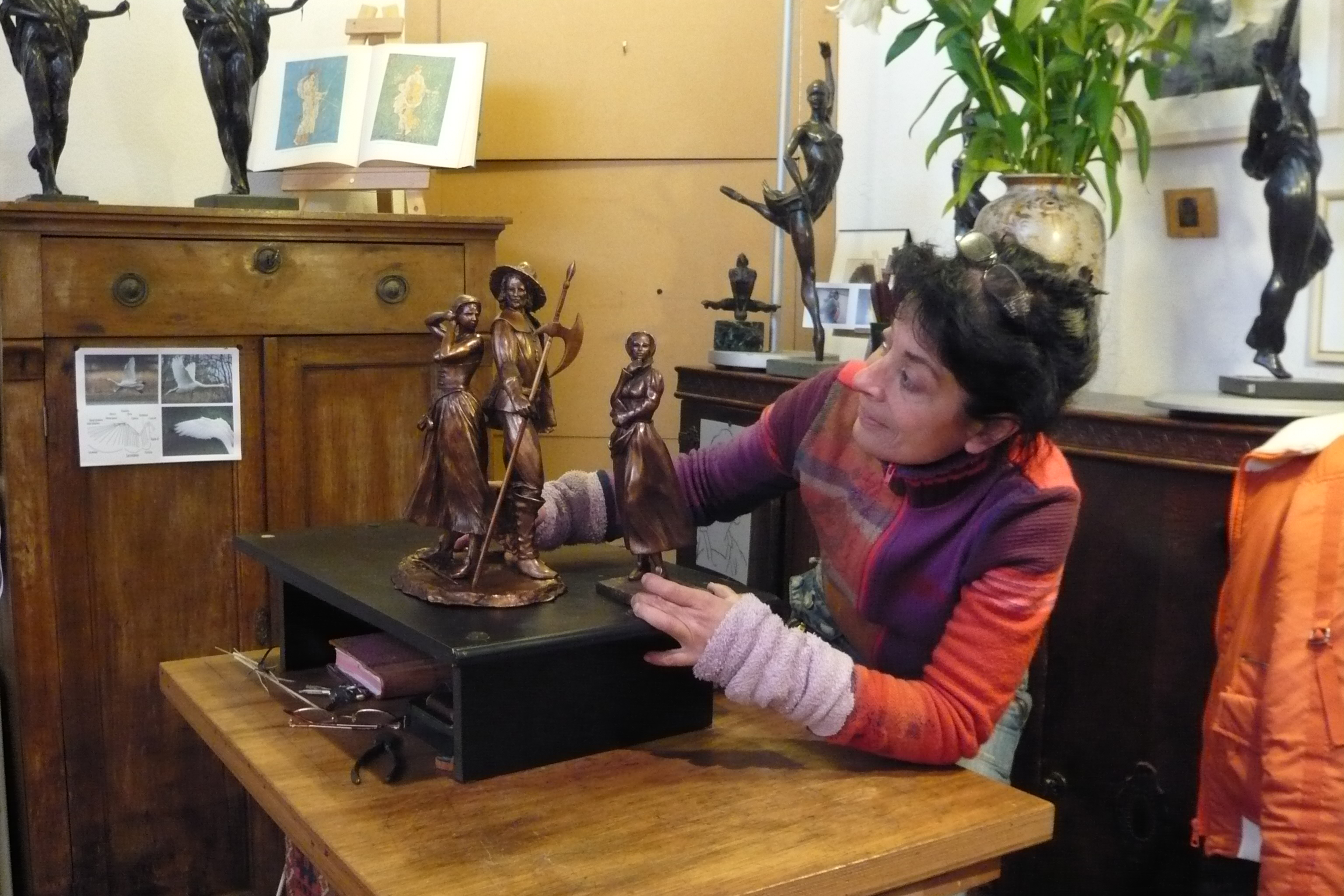 Graziella Curreli at home in her studio with her models for the Kenau-Ripperda monument from 2009 (this monument is 3 meters high and was installed on the Stationsplein in Haarlem in May, 2013) and for the Kenau Hasselaer Prijs (this "Emancipatieprijs" is awarded yearly since 2008).